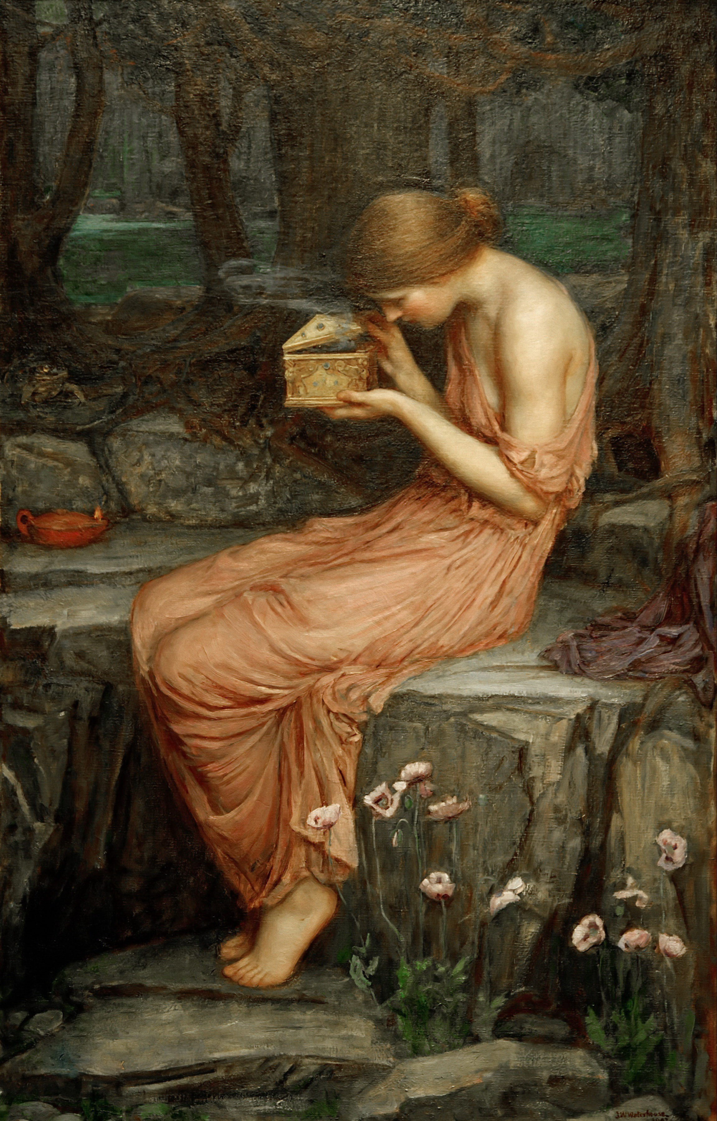 Waterhouse painting found at The Art and Life of John William Waterhouse